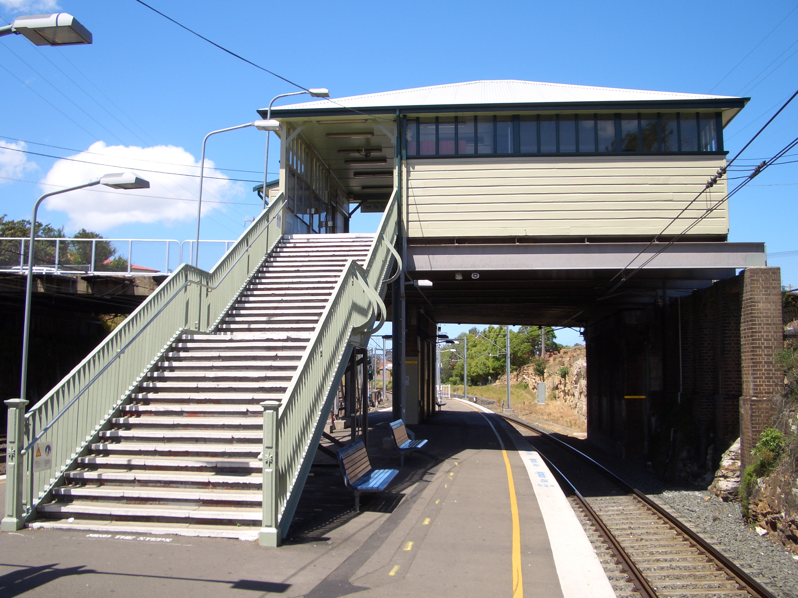 Dulwich Hill Railway Station